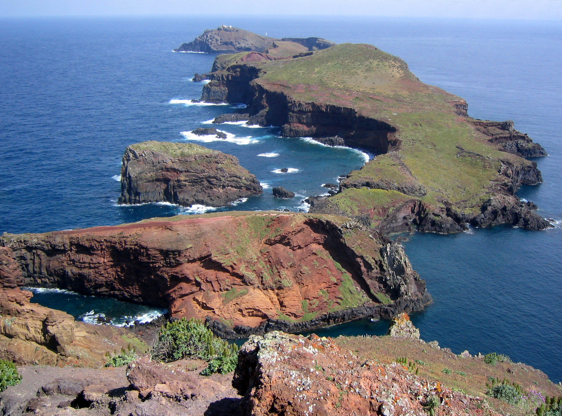 Pensinsula at the eastern tip of Madeira with islands São Lourenço and Agostinho